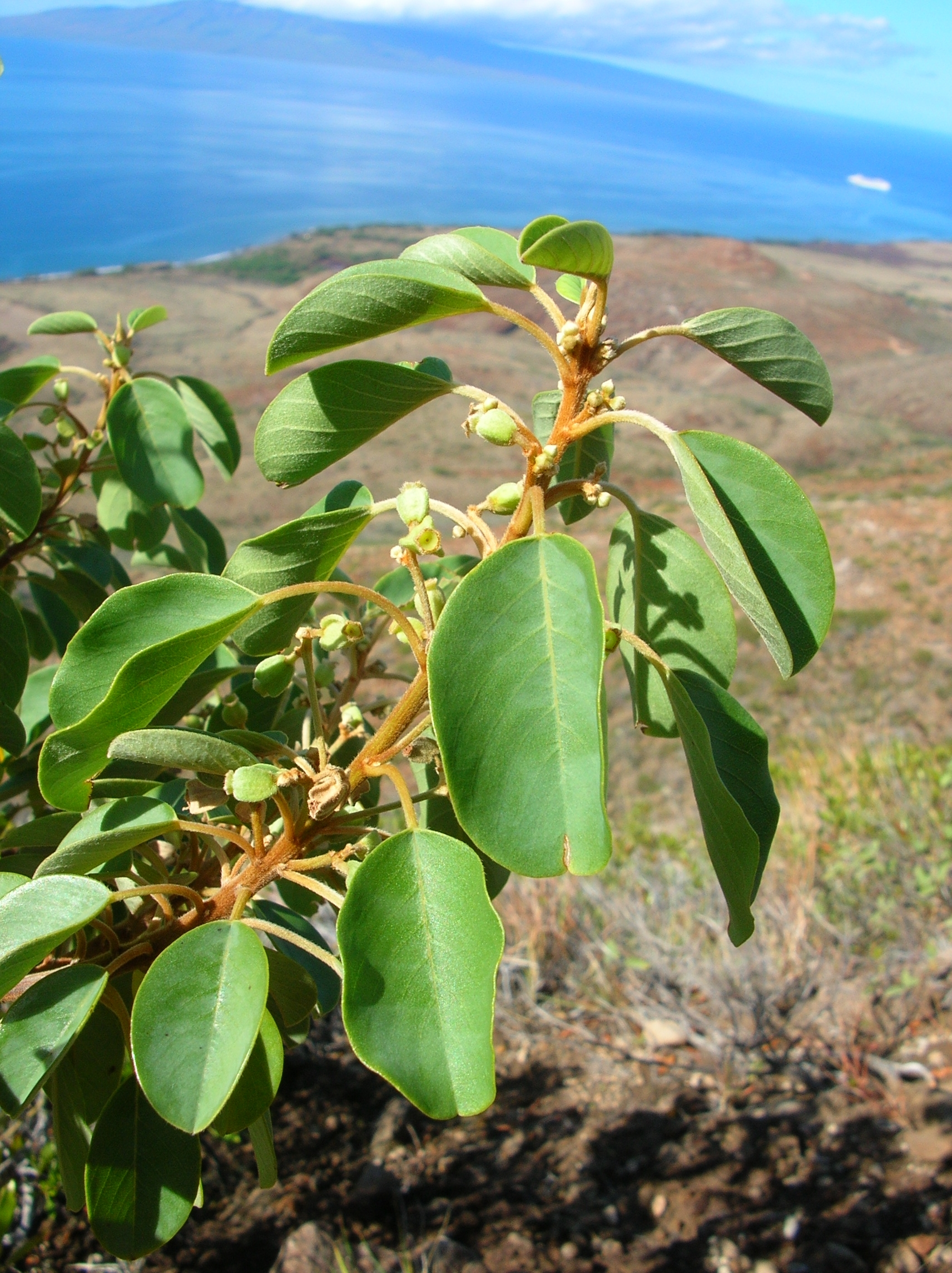 Gouania hillebrandii (fruits). Location: Maui, Lihau